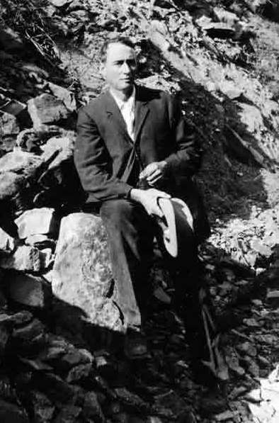 US Forest Service Ranger, Ed Pulaski (1868-1931)